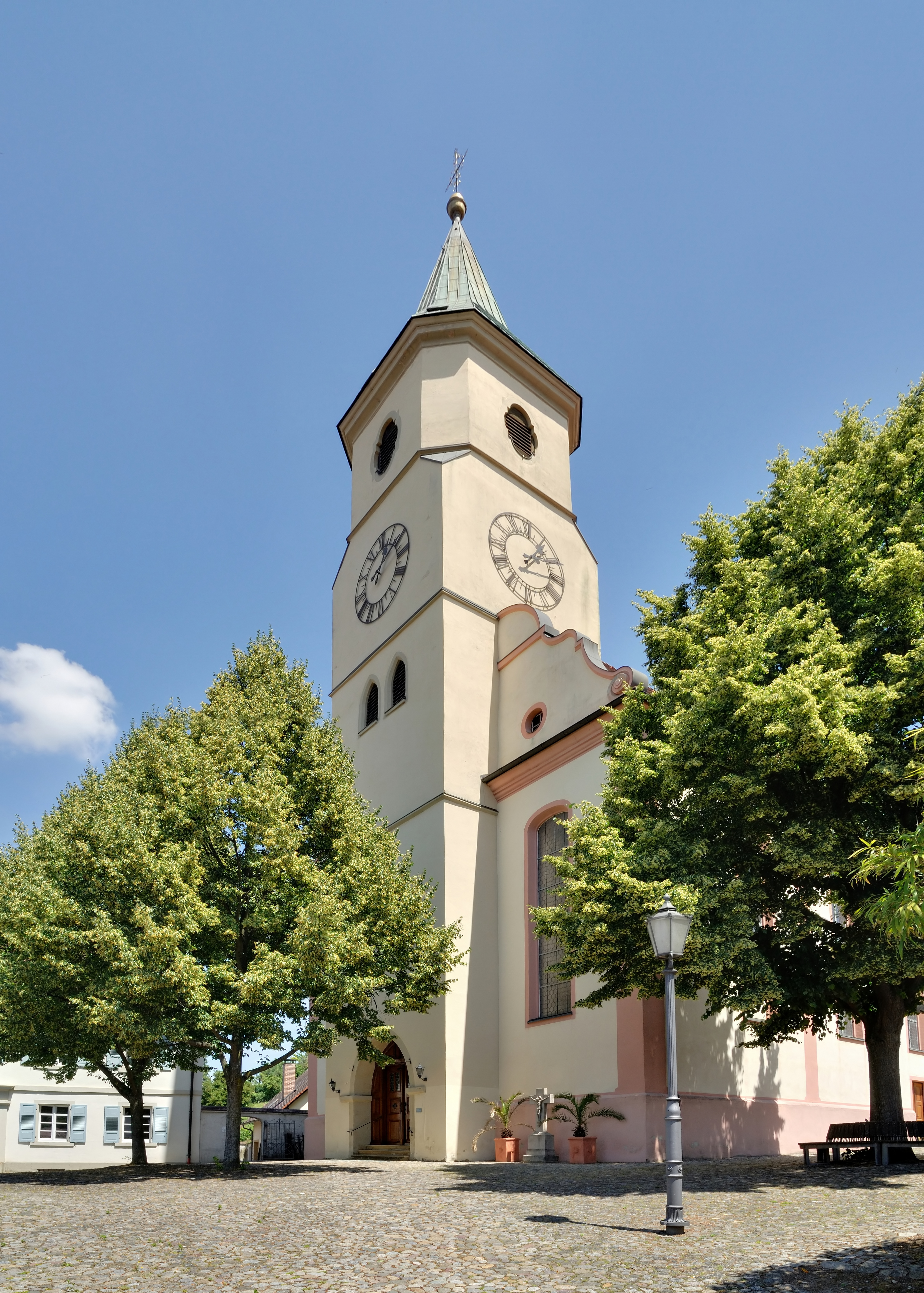 Schliengen: Saint Leodegar Church